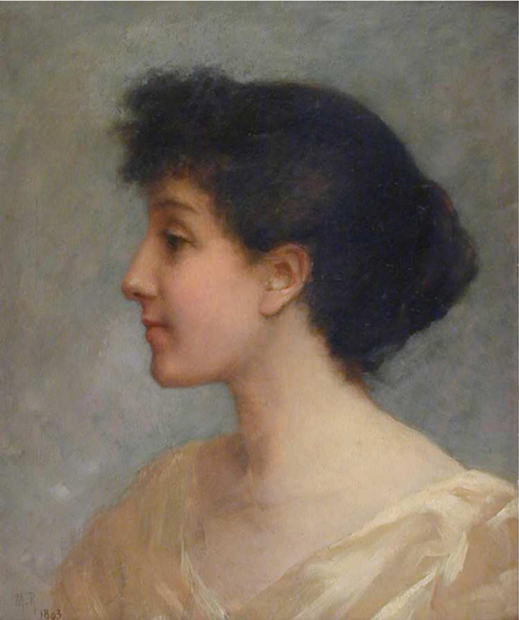 Beautiful young woman 23 years old painted by Marcel Rieder, future wife and models of the artist.